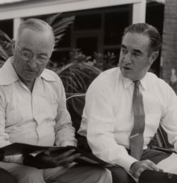 President of the United States Harry S. Truman talking with the Director of the Budget Bureau Frederick J. Lawton